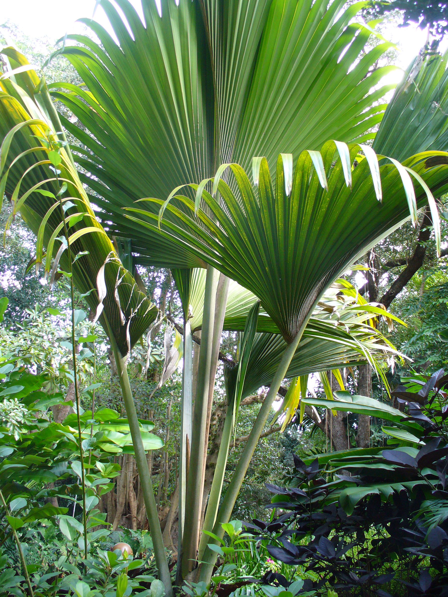 Lodoicea maldivica, cultivated, Flamingo Gardens, Davie, Florida, USA